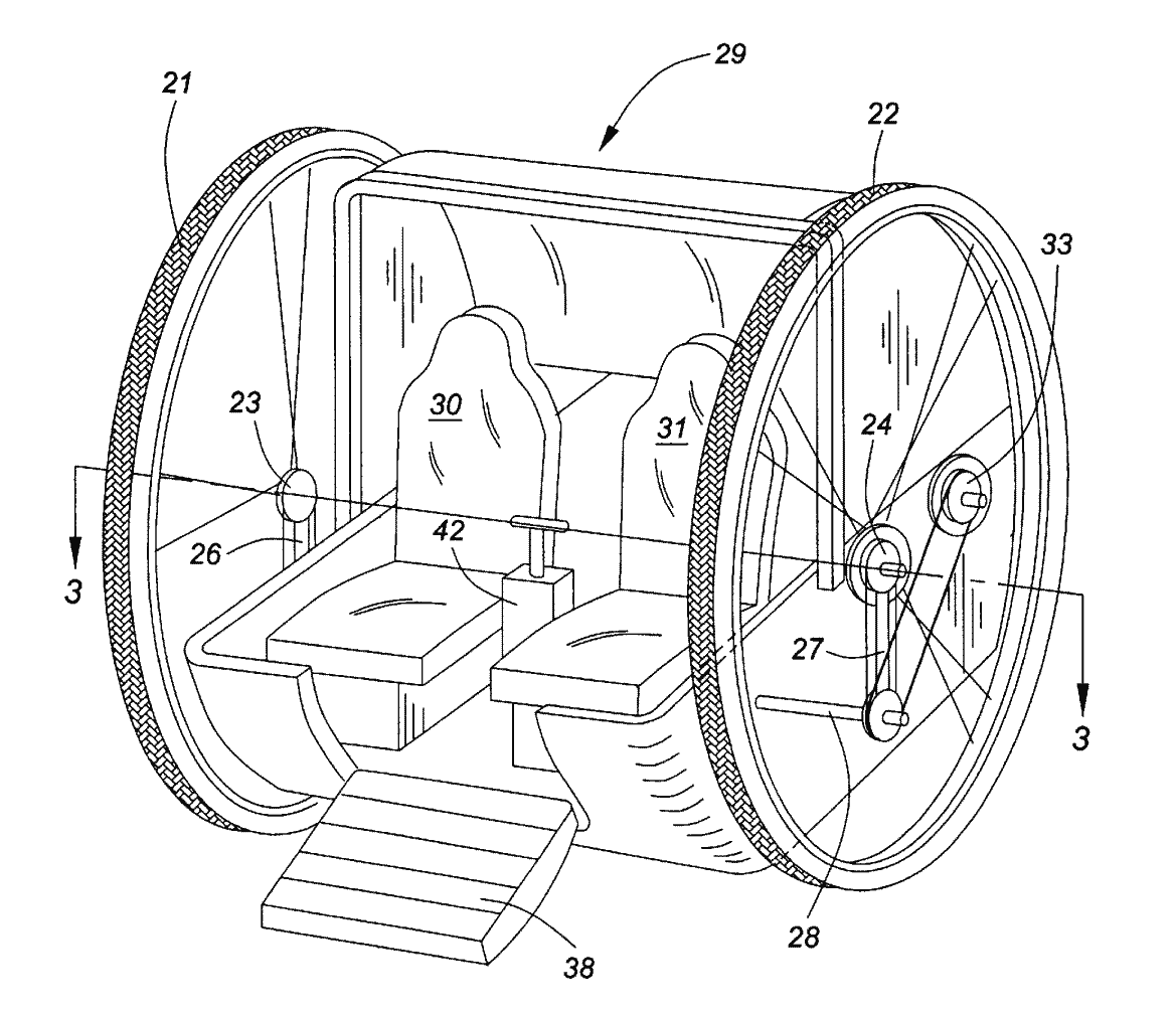 A vehicle to transport humans, generally called a dicycle. Source